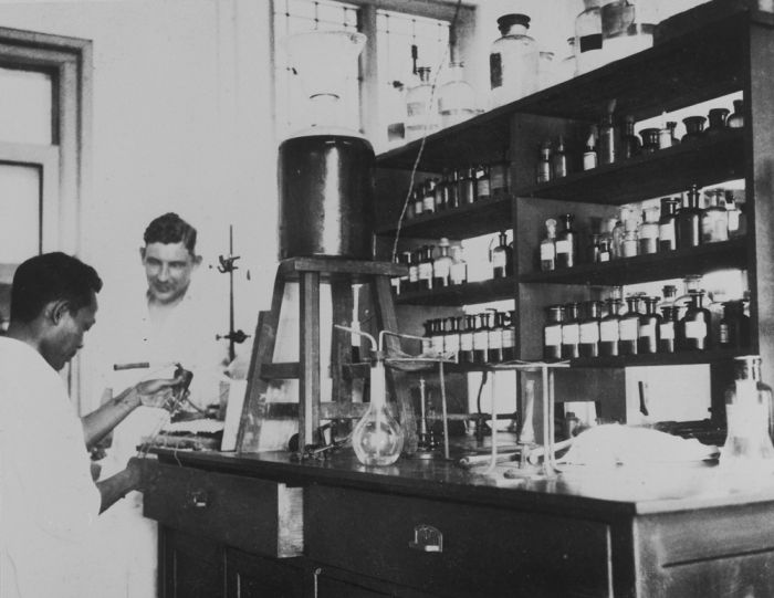 Dr. Donath and Kaderoen doing research in the Health laboratory in Weltevreden, Batavia.